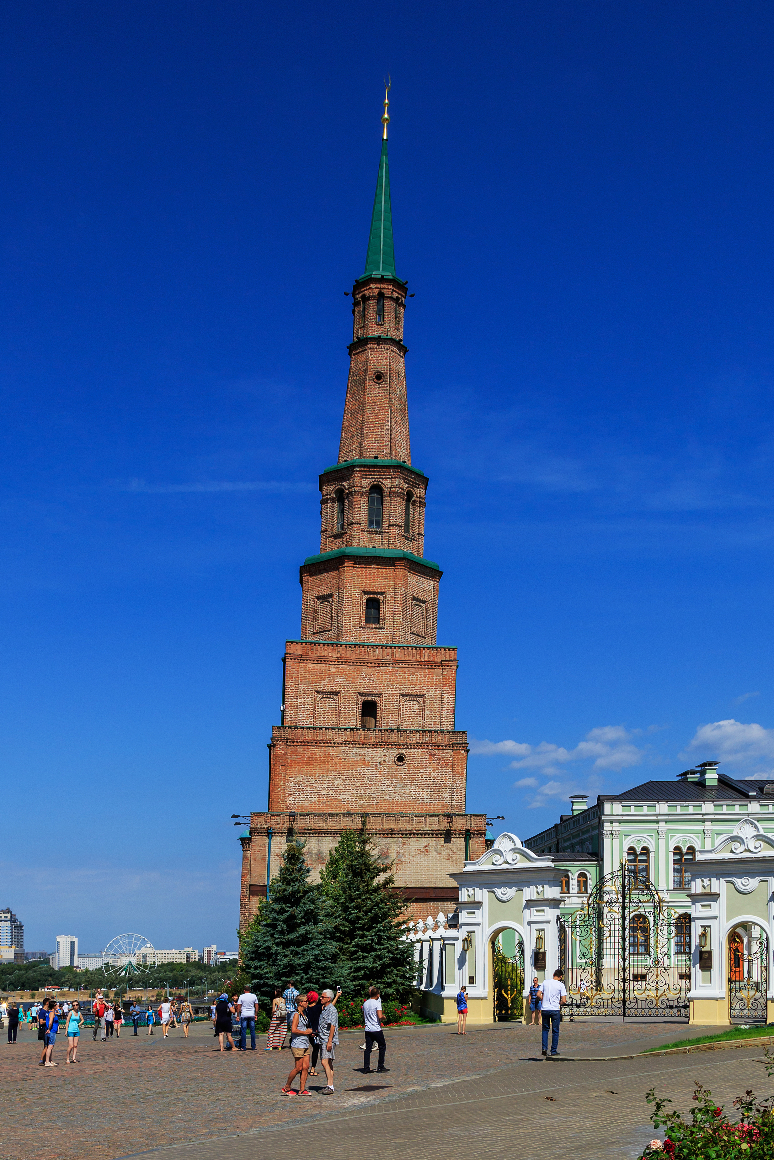 Söyembikä Tower of the Kremlin in Kazan, Russia